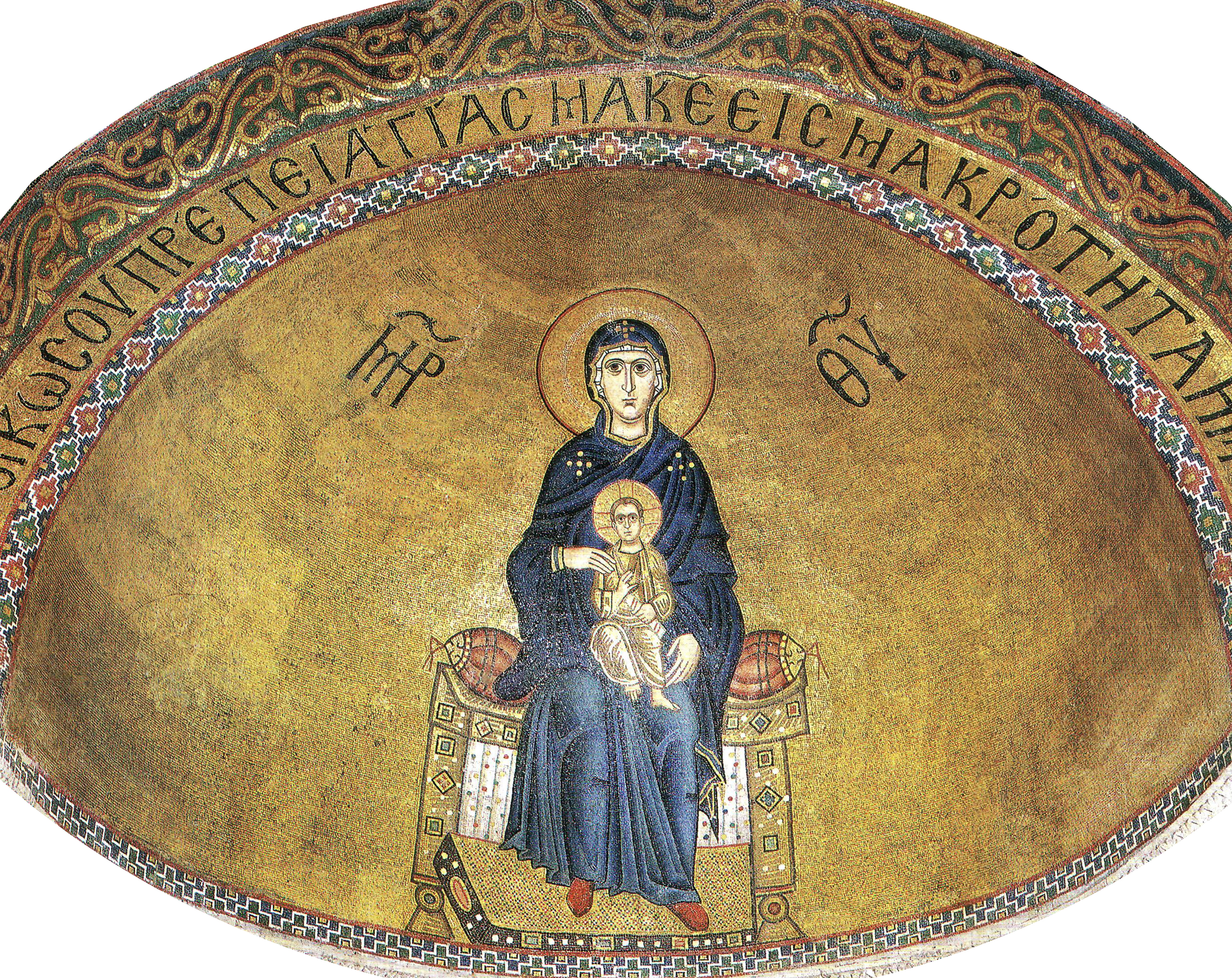 Hosios Loukas Monastery, Boeotia, Greece